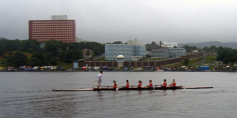 Rowers at the Regatta, Quidi Vidi Lake. HM Prison can be seen in the background.